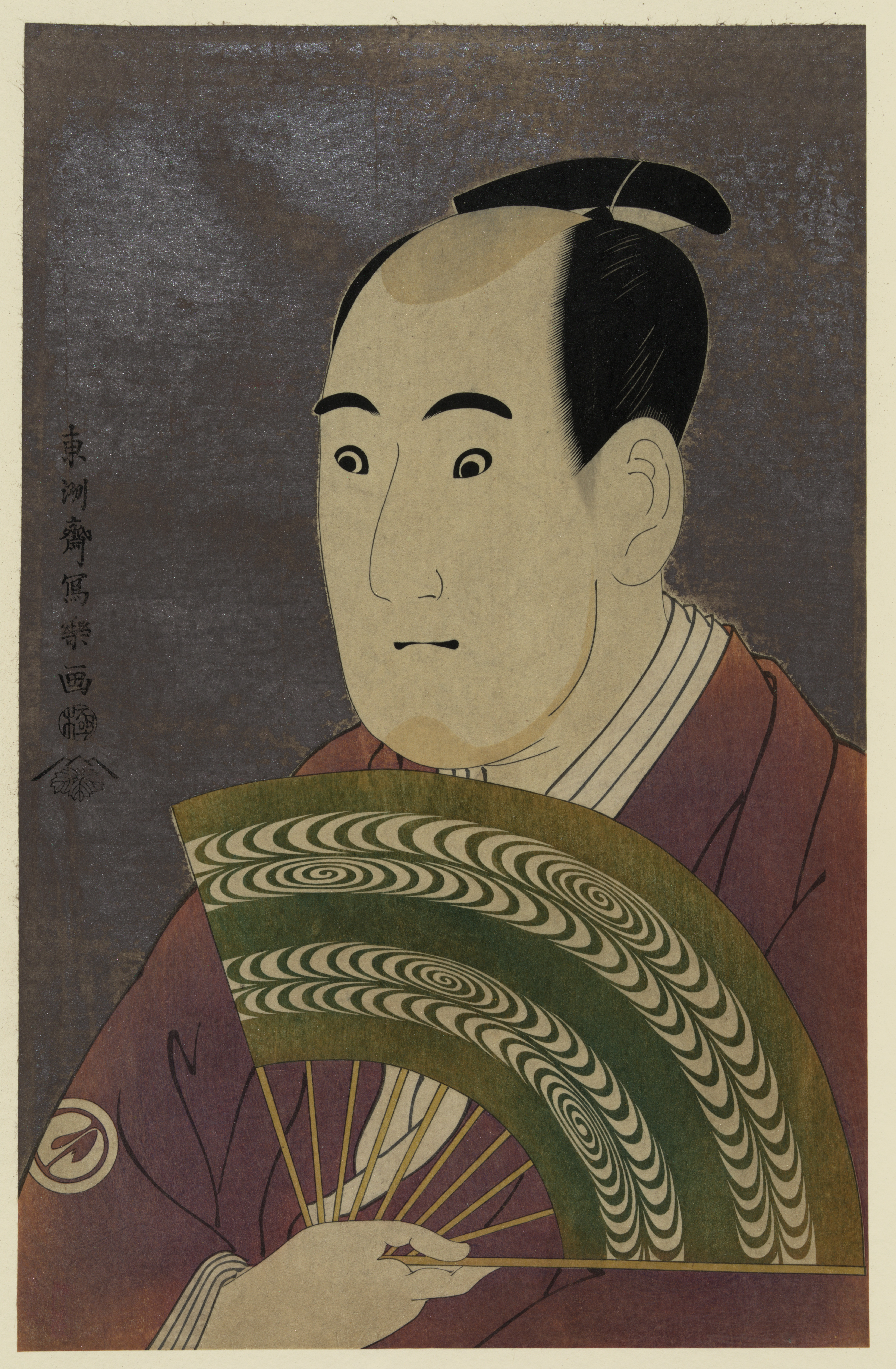 Ukiyo-e portrait of the kabuki actor Sawamura Sojurō III as Ogishi Kurando by Tōshūsai Sharaku, 1794